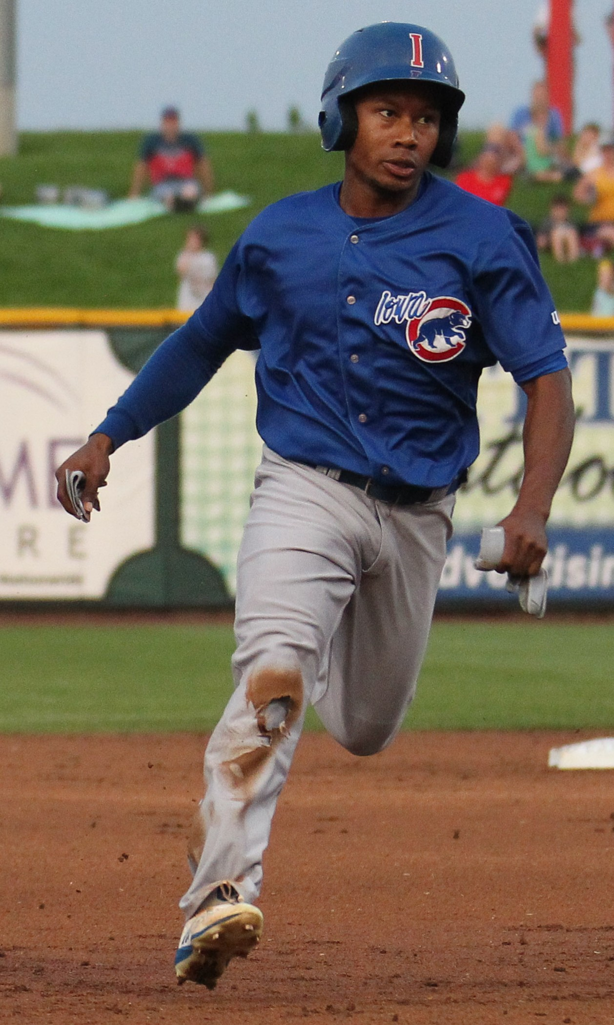 Terrance Gore with the Iowa Cubs Minda Haas Kuhlmann | 2018 USAGE INSTRUCTIONS: You are welcome to share or publish to your own site or social media account, but you MUST credit me, Minda Haas Kuhlmann. Twitter: @minda33. Instagram: minda.haas